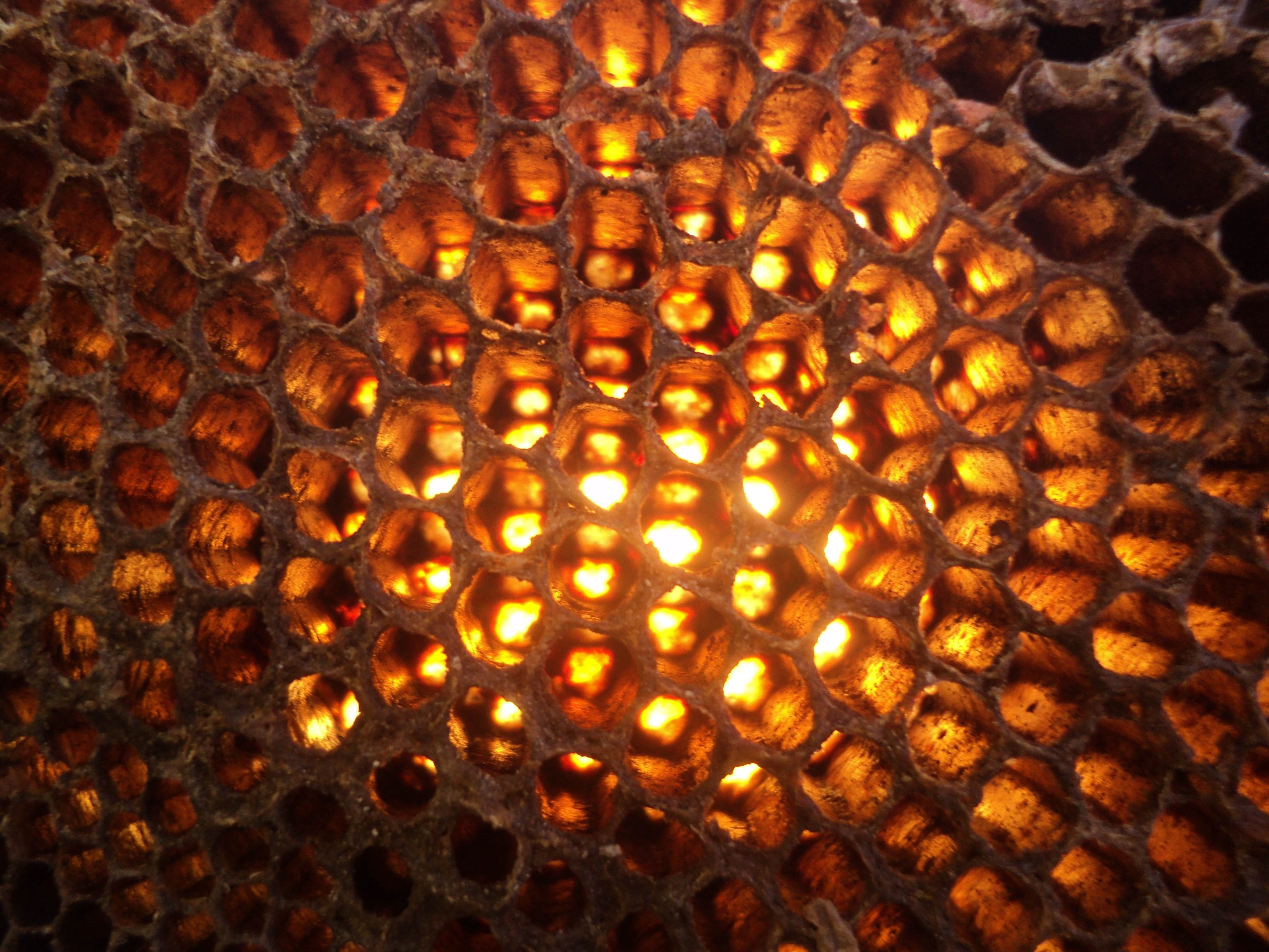 Photographer - Rajat Yadav Camera - Sony DSC S2000 (A Digiital camera of 10.1 MP)